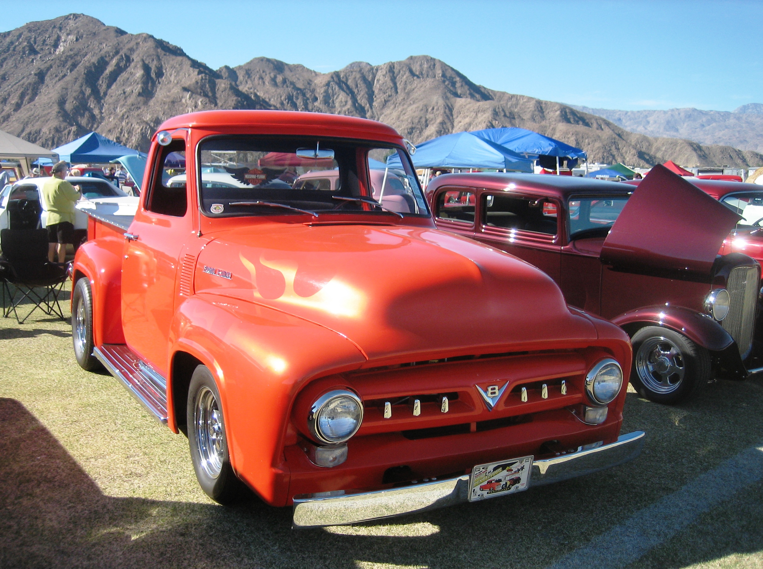 1953 Ford F-100 pickup truck